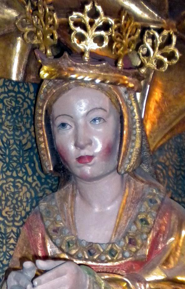 Sculpture of Queen Elizabeth Isabella of Denmark, Norway and Sweden by Claus Berg about 1530Place: Church of St. Canute’s, Odense, Denmark